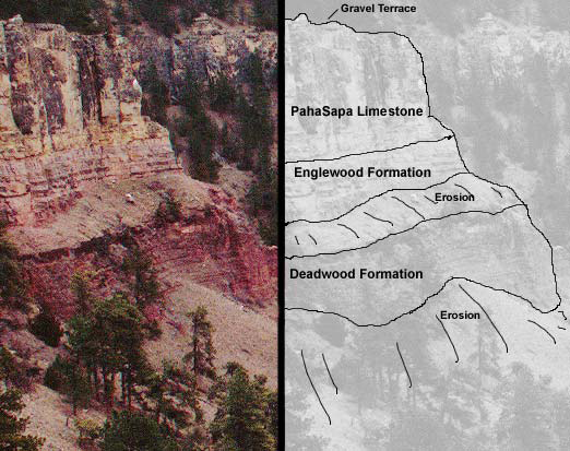 The lower units of the Black Hills Paleozoic layers. The Deadwood Formation, Englewood Formation, and PahaSapa Limestone are topped with a gravel terace of Cenozoic age.